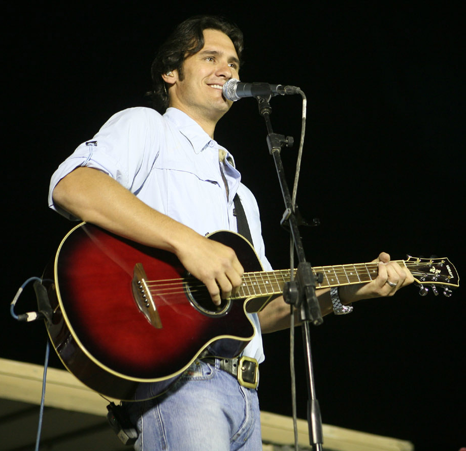 Joe Nichols.